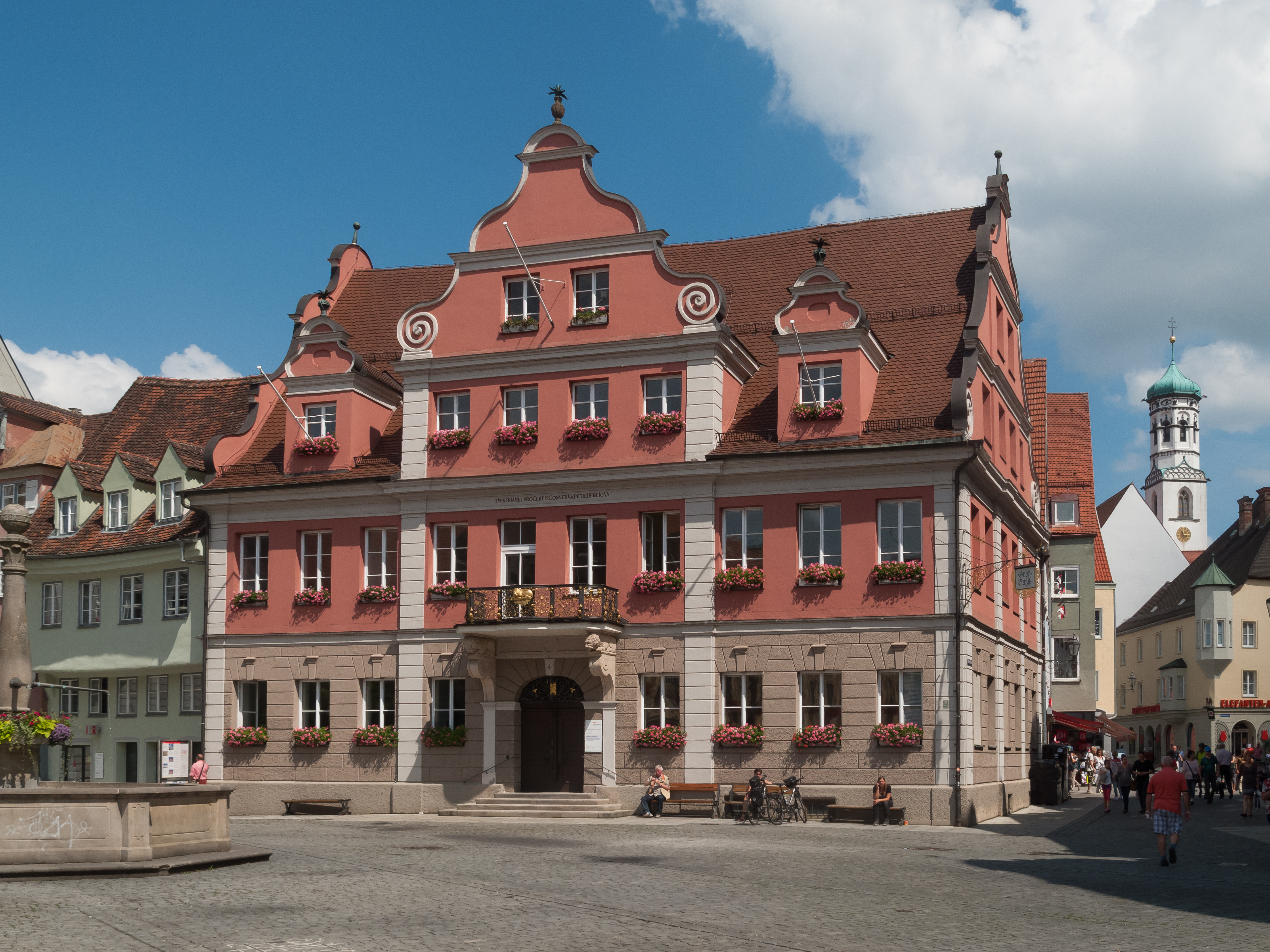 Memmingen, monumental building: der GrosszunftThis is a photograph of an architectural monument.